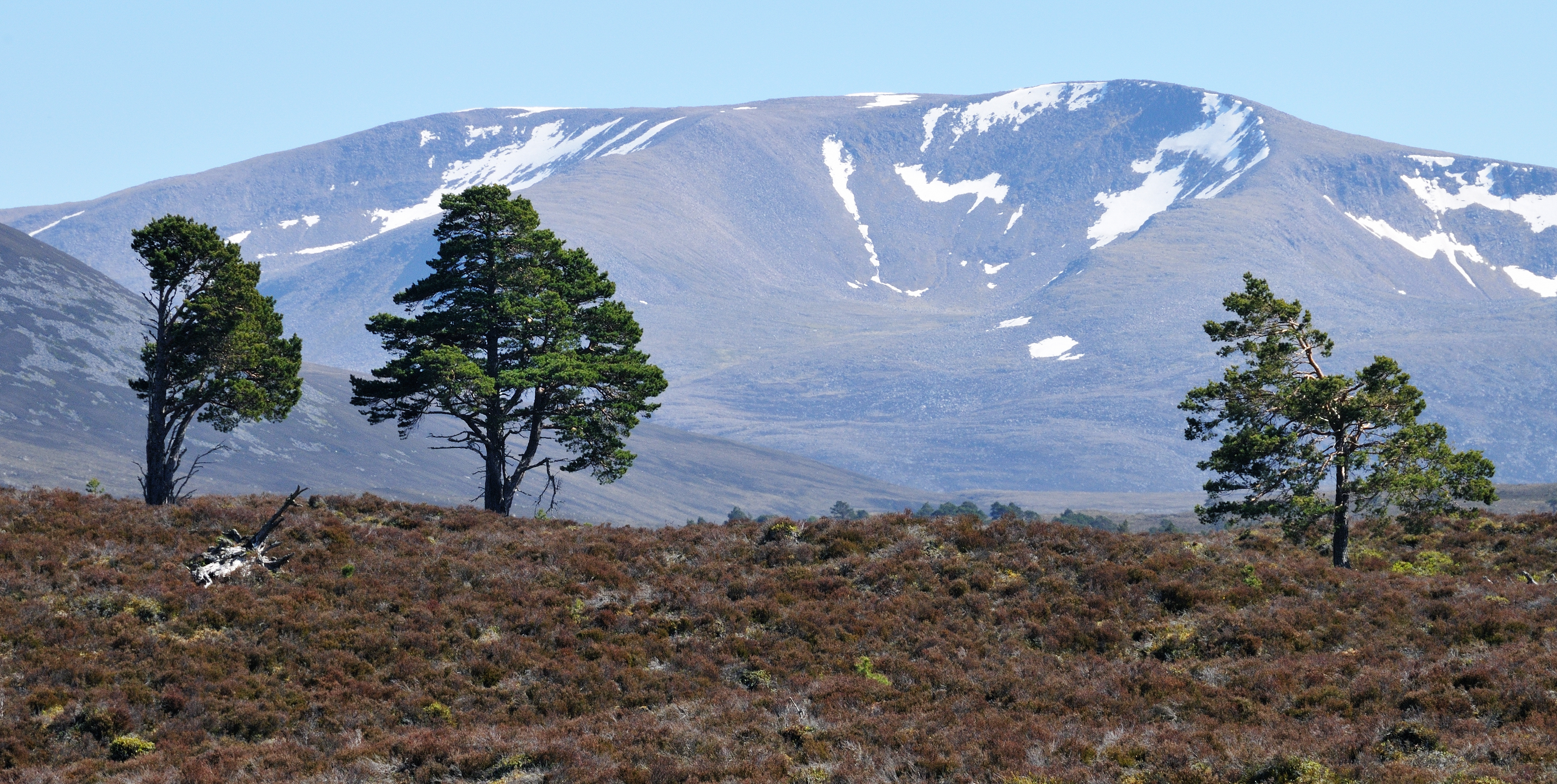 Pinus sylvestris treeline (artificially lowered treeline due to overgrazing by deer), Cairngorm Mts., Scotland.